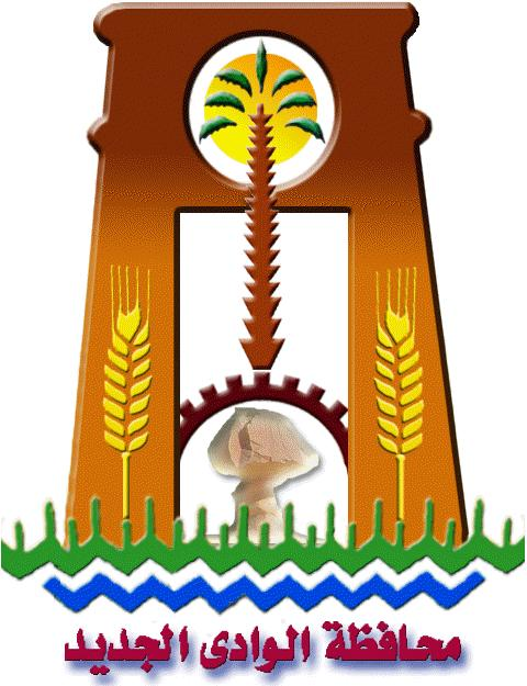 Coat of arms of the New Valley Governorate - the old Al Wadi al Jadid Governorate